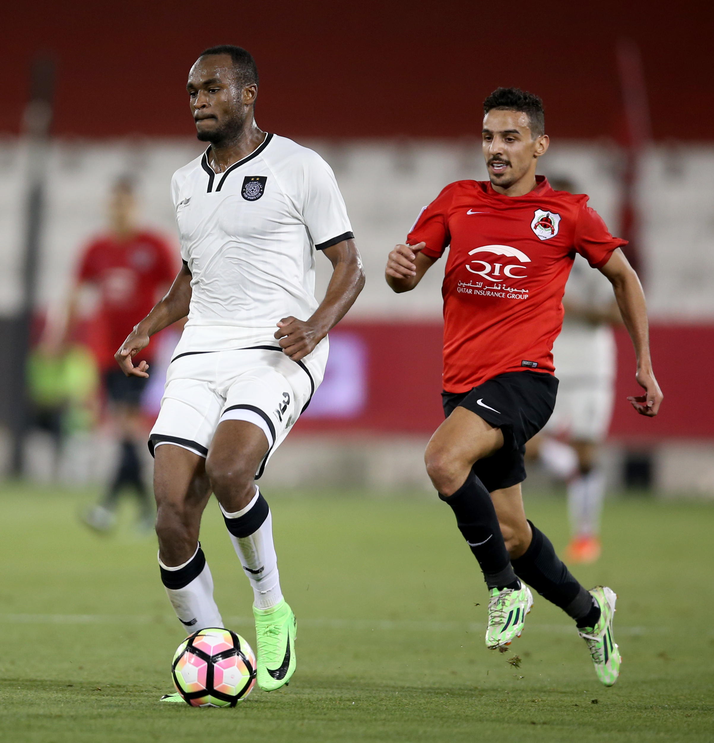 Abdelkarim Hassan of Al Sadd and Abdulrahman Al Harazi of Al Rayyan competing in a match in the Qatar Stars League in April 2017. Pic by Mohan